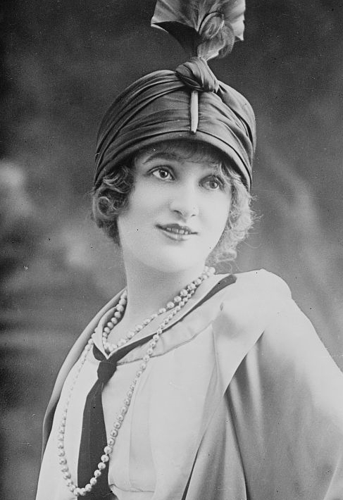 French actress and singer Gaby Deslys (1881-1920)